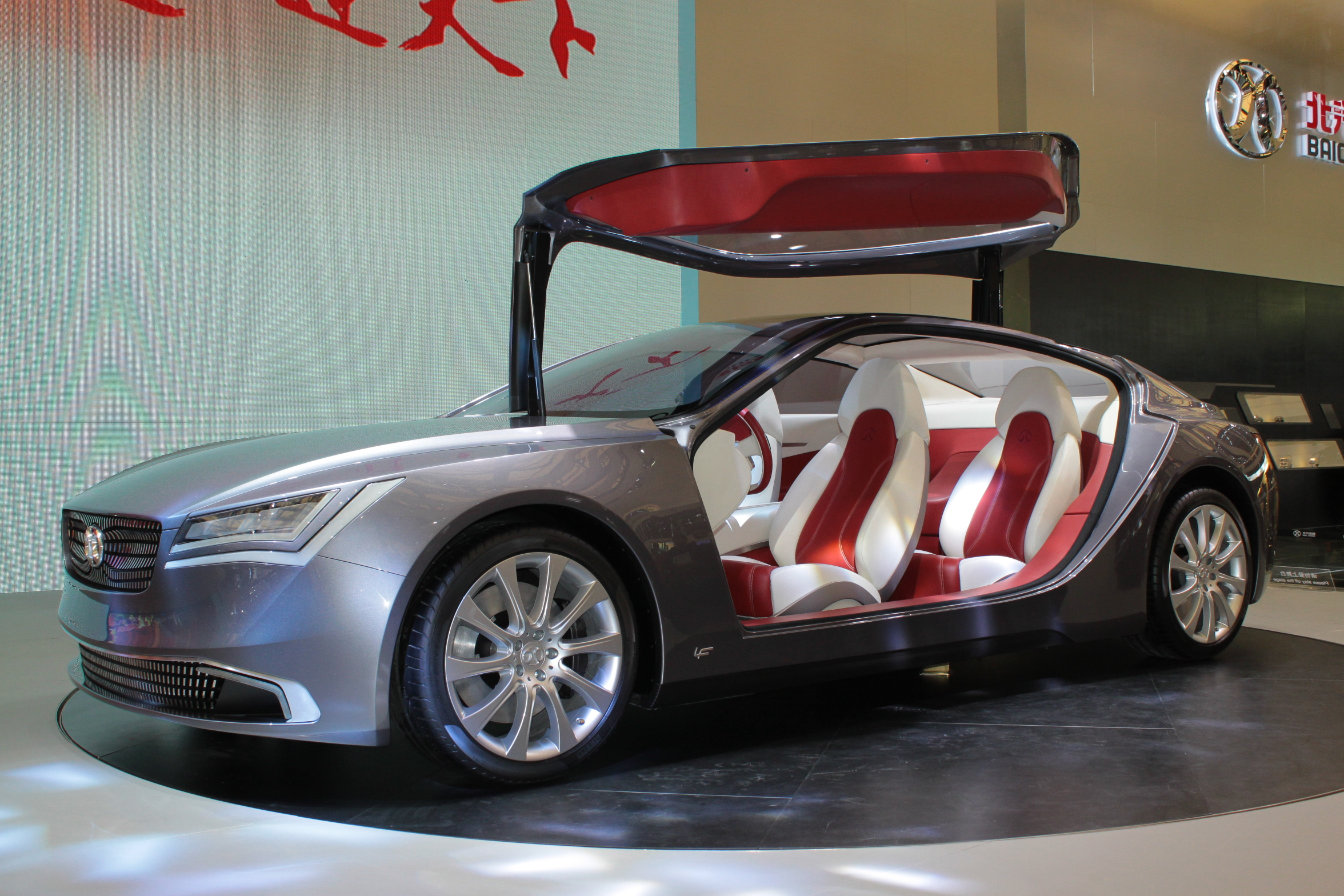 BAIC Concept 900 at AutoShanghai 2013. Designed by Fioravanti.